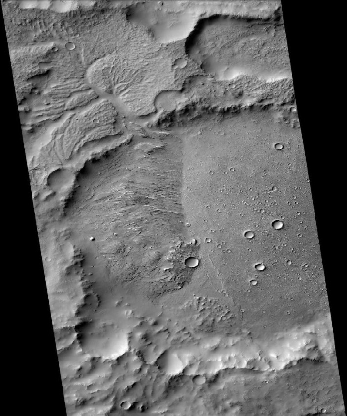 Boeddicker Crater, as seen by CTX.